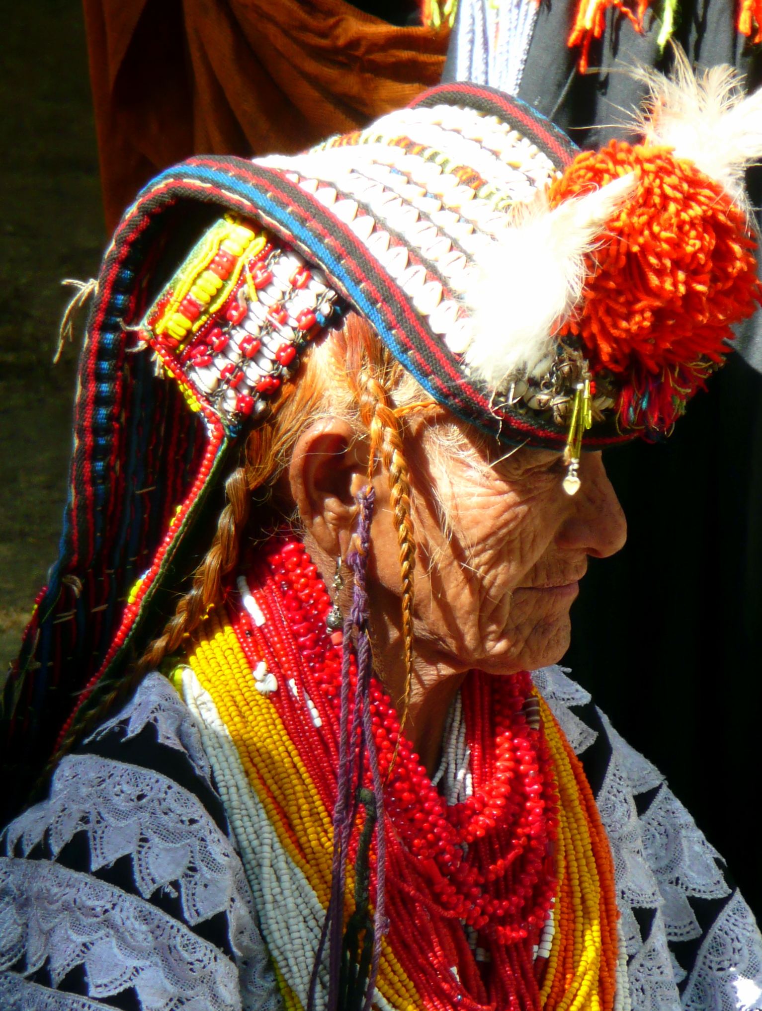 Kalasha woman at the harvest festival